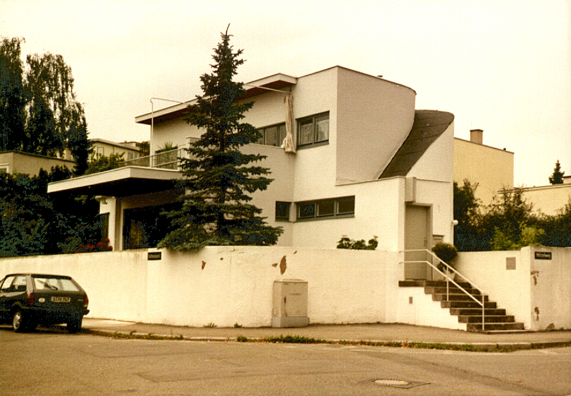 Stuttgart-Weissenhof, Germany, House by Hans Scharoun, 1927. International style.